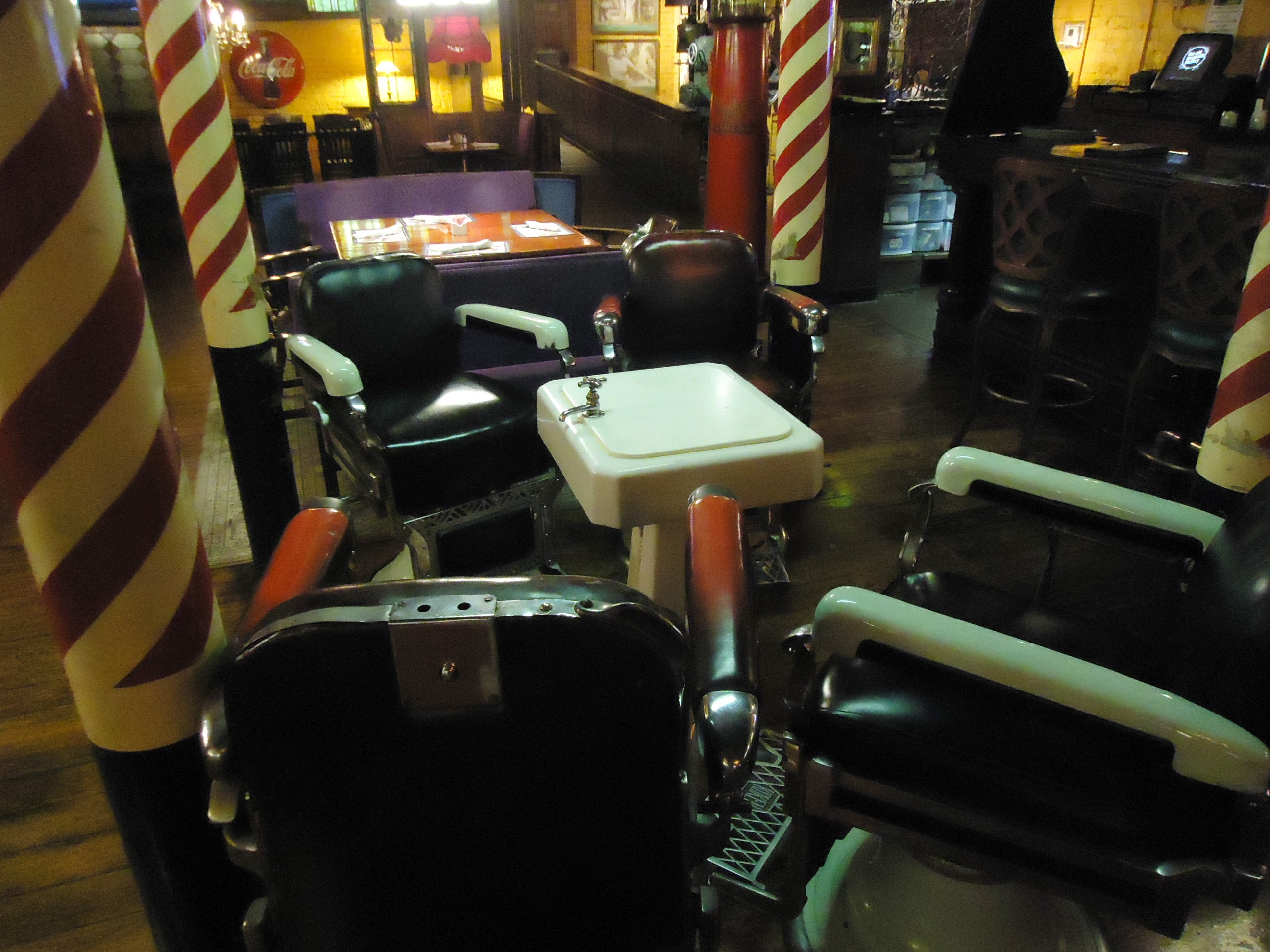 The Old Spaghetti Factory restaurant has an area with former barber chairs as a creative oddity.